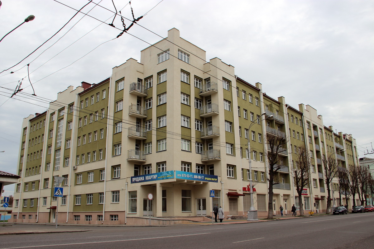 Gomel. Lenin Avenue. House of the Commune